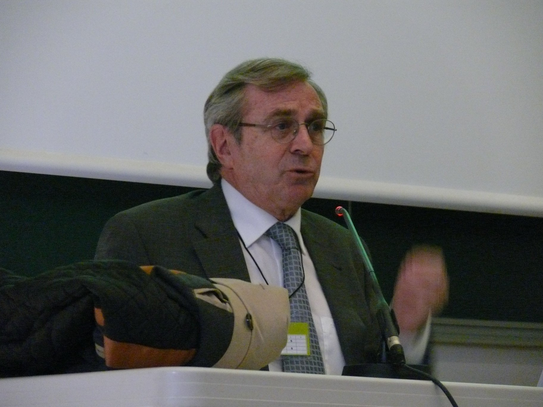 Philippe Vasseur at the Semaines Sociales de France 2014 at Université Catholique de Lille (Nord, France).